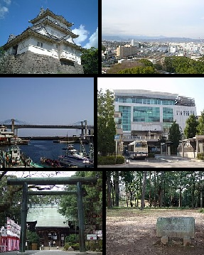 Odawara montage